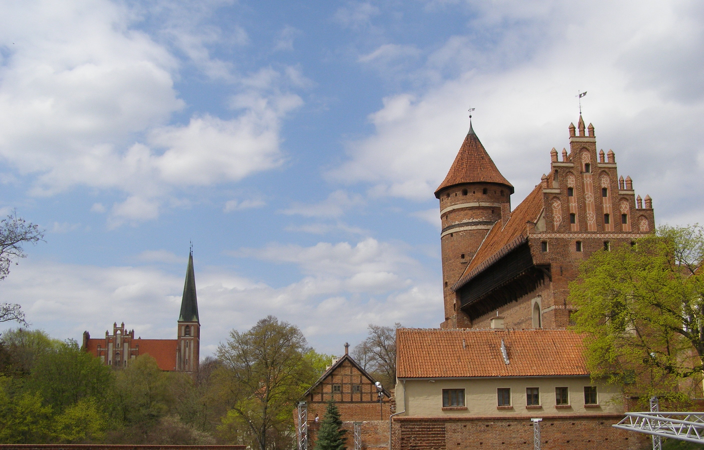 Olsztyn - castle